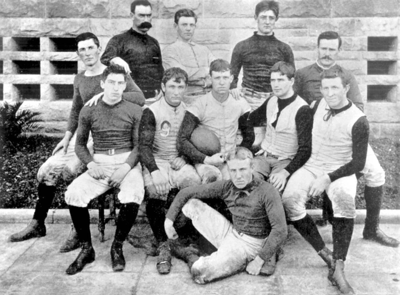 The Stanford University ("Cardinal") football team that played the first "Big Game" v. California. John Whittemore (holding ball), who was the student body president, served as team captain and coach.